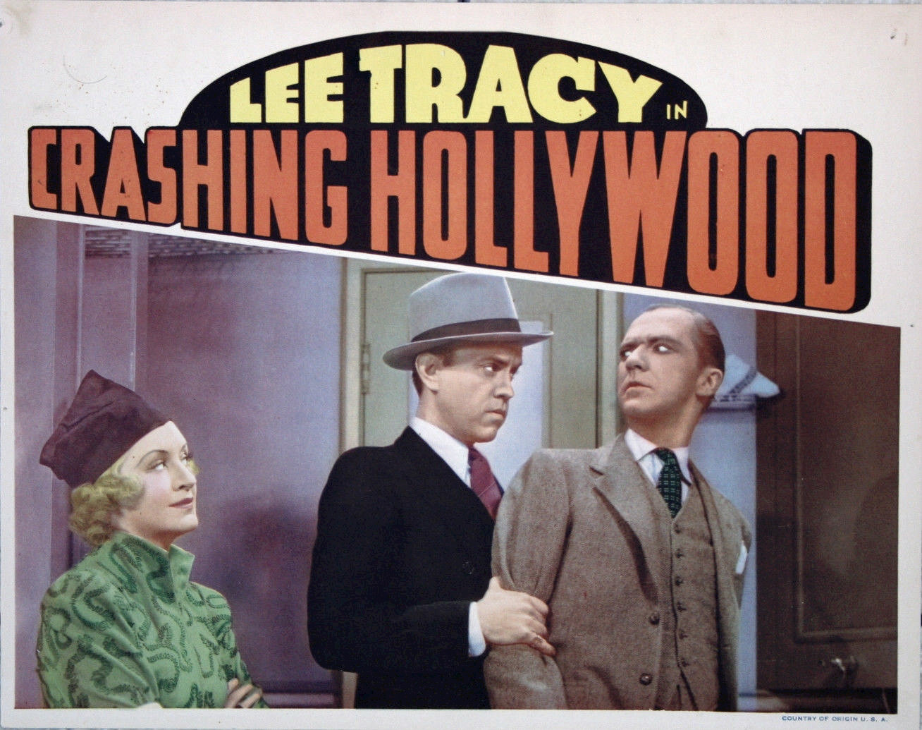 Lobby card for the American film Crashing Hollywood (1938) with Lee Patrick, Lee Tracy, and an unidentified actor.